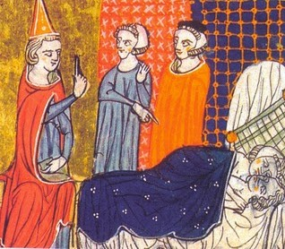 Concepción de Jaime I